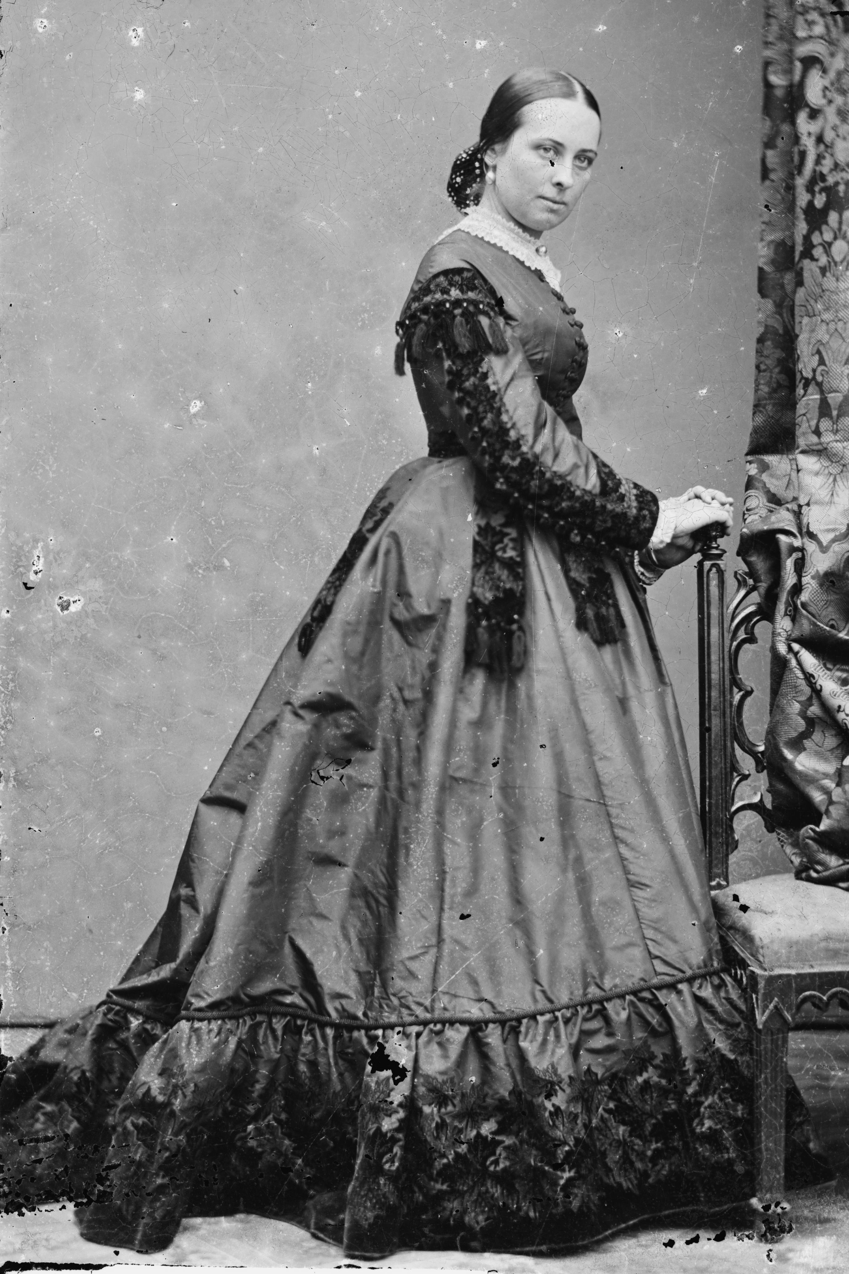 Mrs. F. S. Chanfrau, wife of Frank Chanfrau. Library of Congress description: "Mrs. Chanfrau".